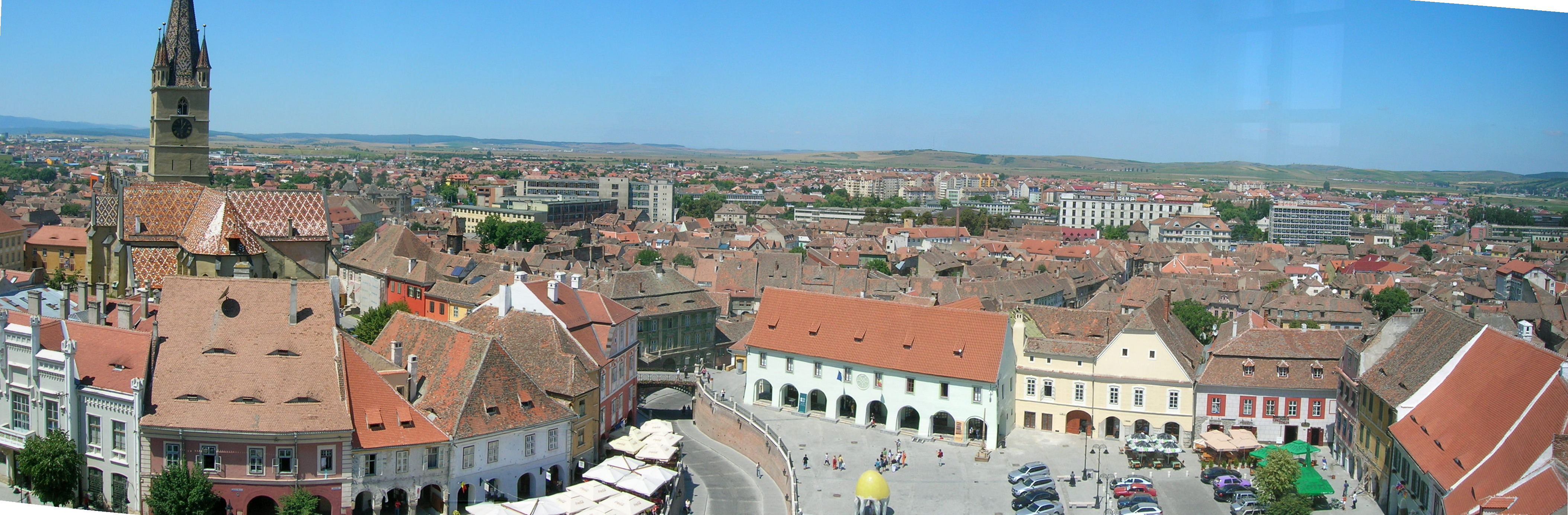 Panoramic view of Piaţa Mica seen from tower, in Sibiu (Romania).